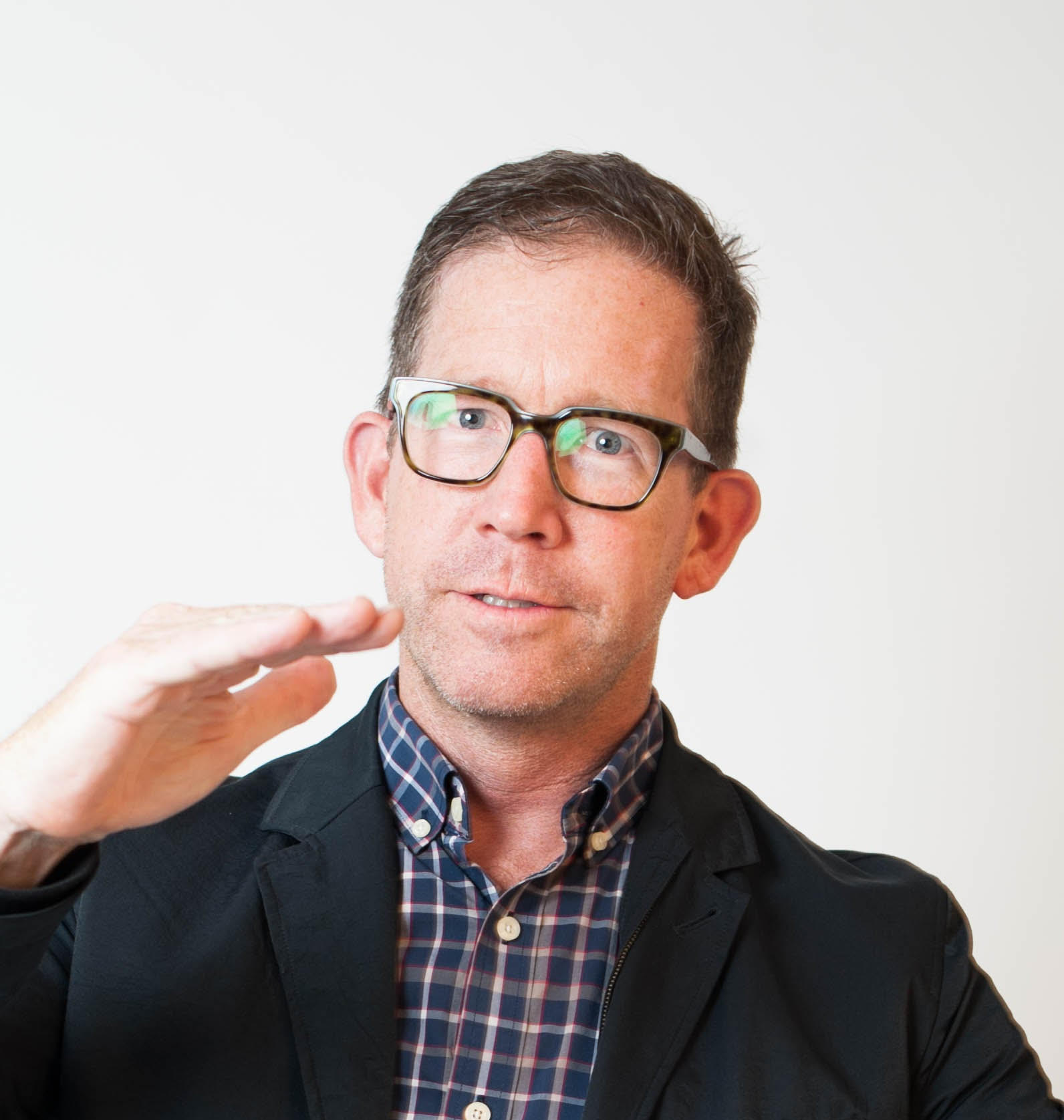 David L. Rose